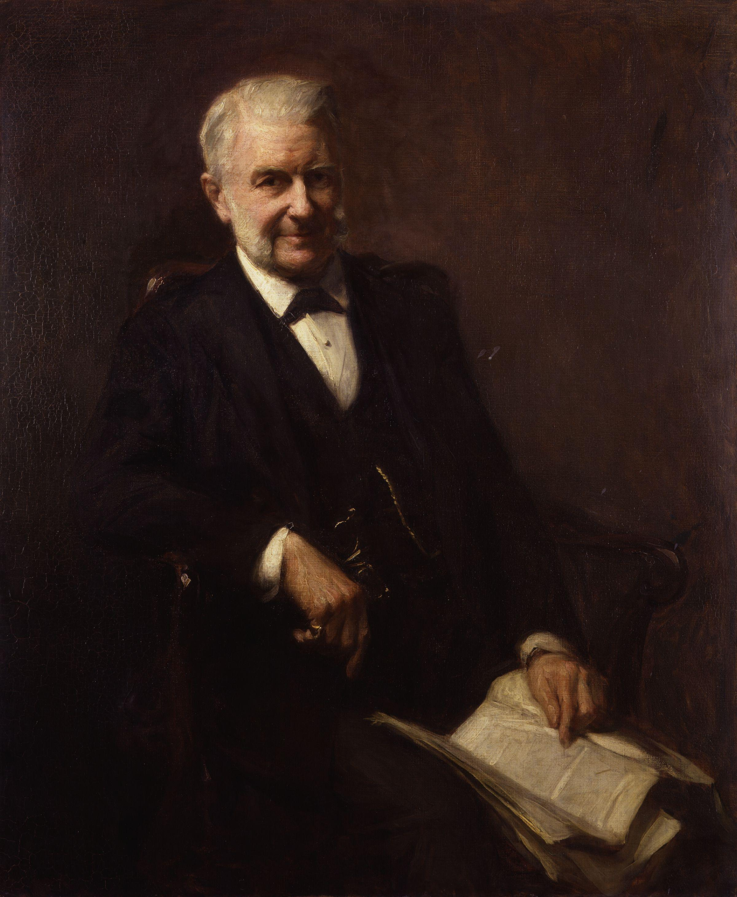 Sir Frederick Augustus Abel, 1st Baronet FRS (17 July 1827–6 September 1902) was an English chemist.